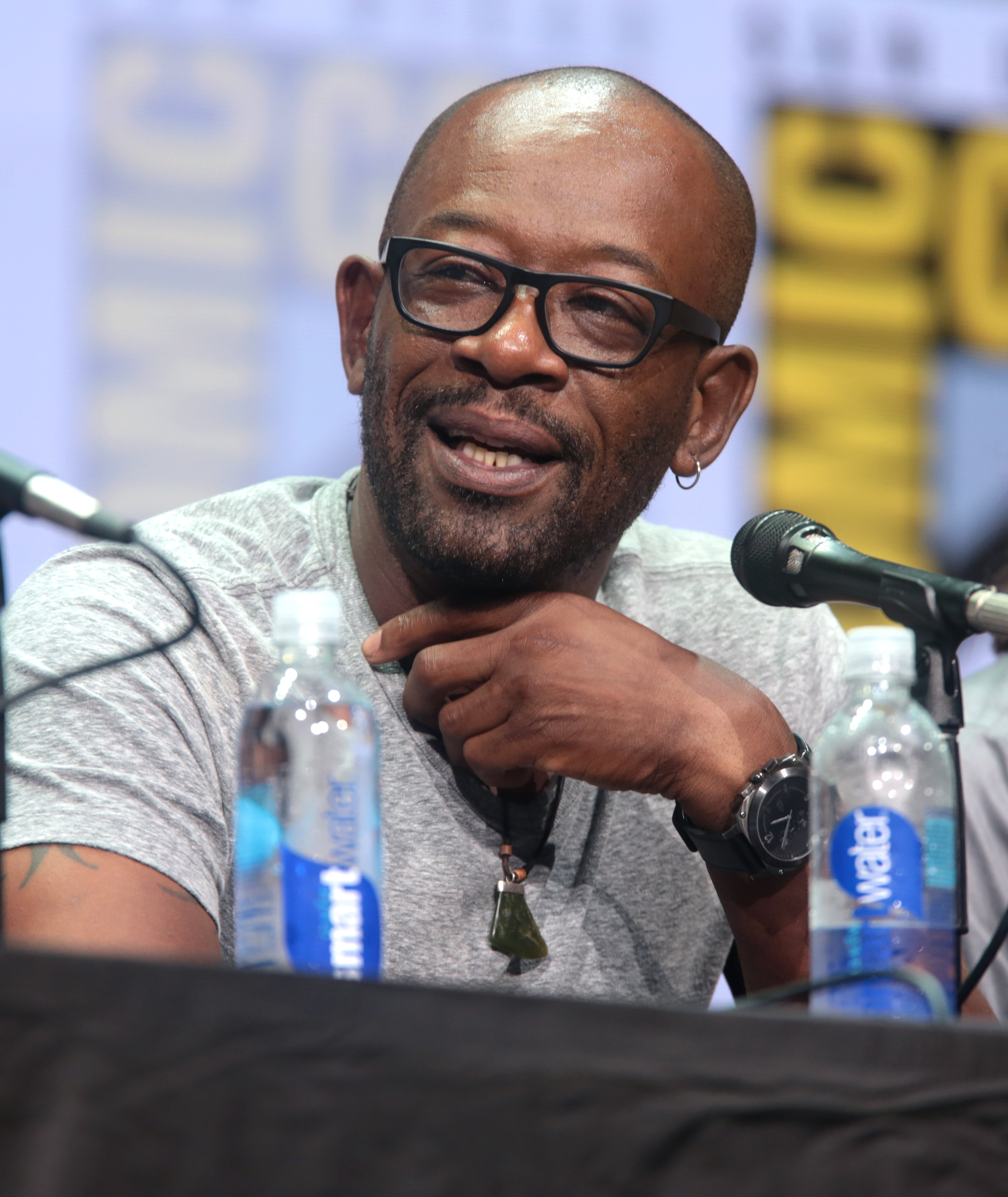 Lennie James speaking at the 2017 San Diego Comic Con International, for "The Walking Dead", at the San Diego Convention Center in San Diego, California.